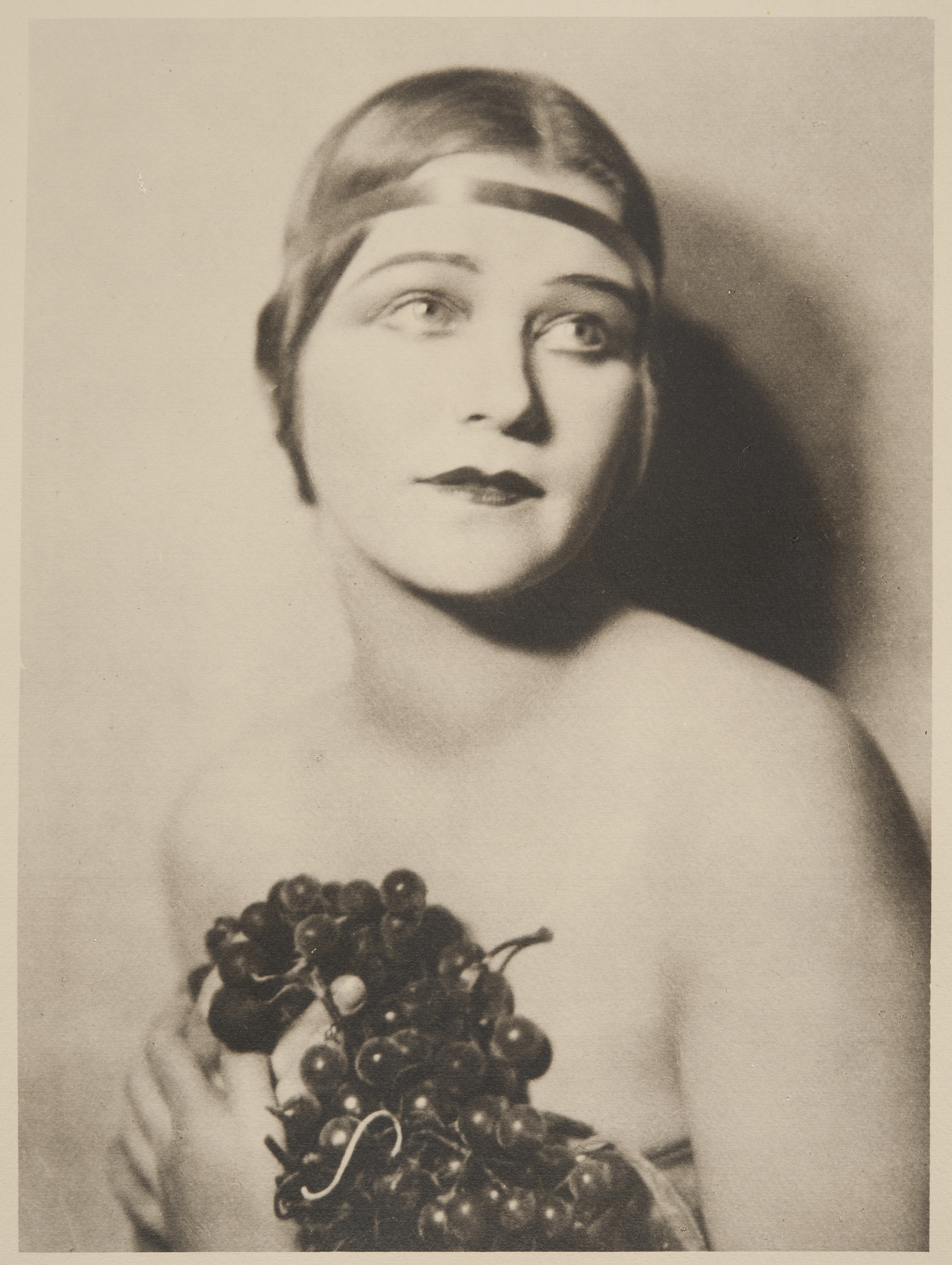 Photograph of the Finnish dancer Edith von Bonsdorff (1890–1968).